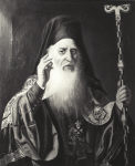 Venedict Kraljevic (Kralidis)